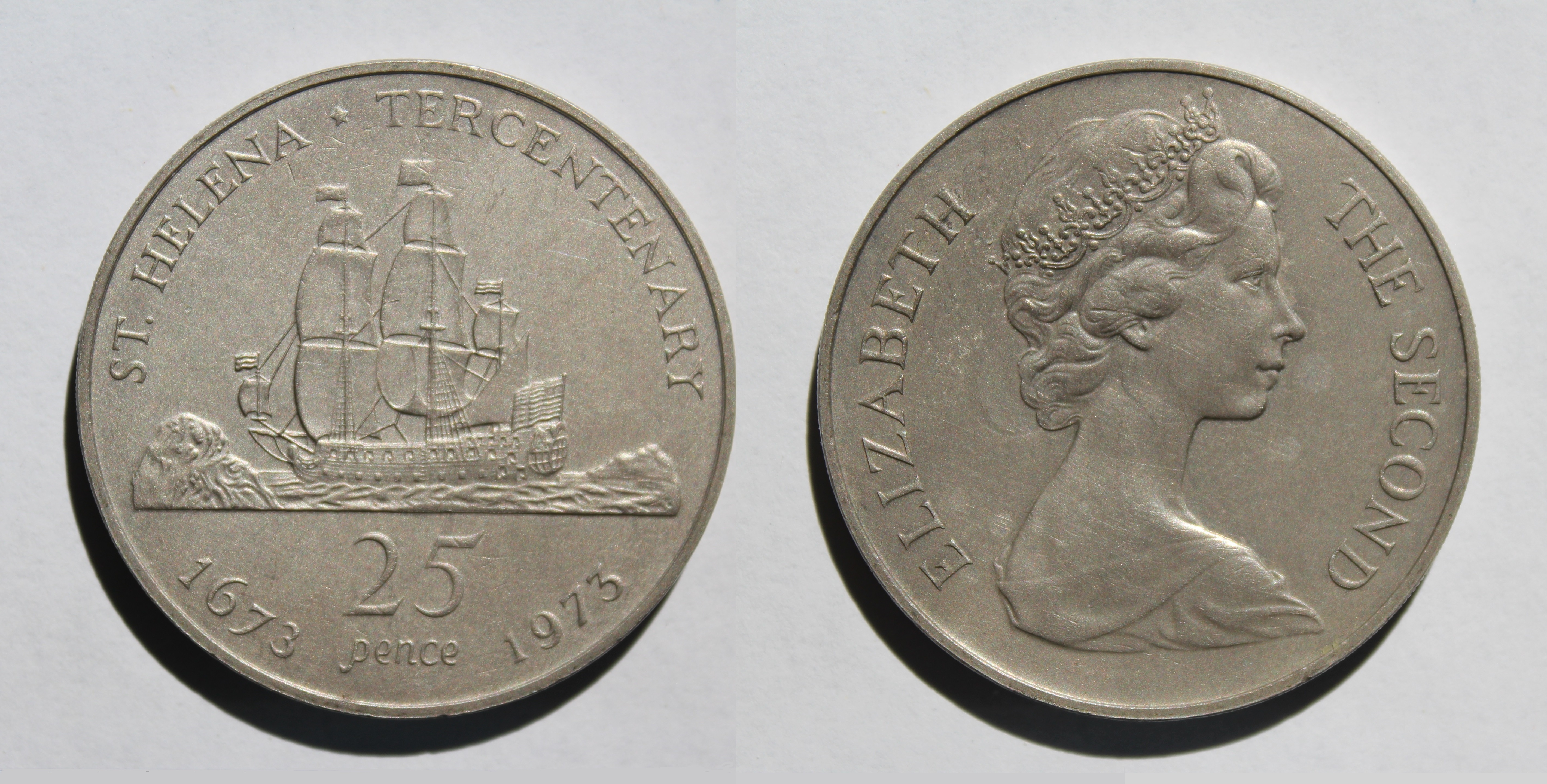 1673-1973 tercentenary 25 pence copper-nickel coin of St. Helena. Since 1657, the British East India Company had received the rights to govern the island. But in early 1673, the Dutch attacked Saint Helena and occupied it for a few months. The British East India Company retook the island in May and a new Charter was given by Charles II of England that granted the island free title. So 1673 is neither discovery nor anniversary of British presence on the island, but a milestone in its history and in the Dutch-British competition for trade.